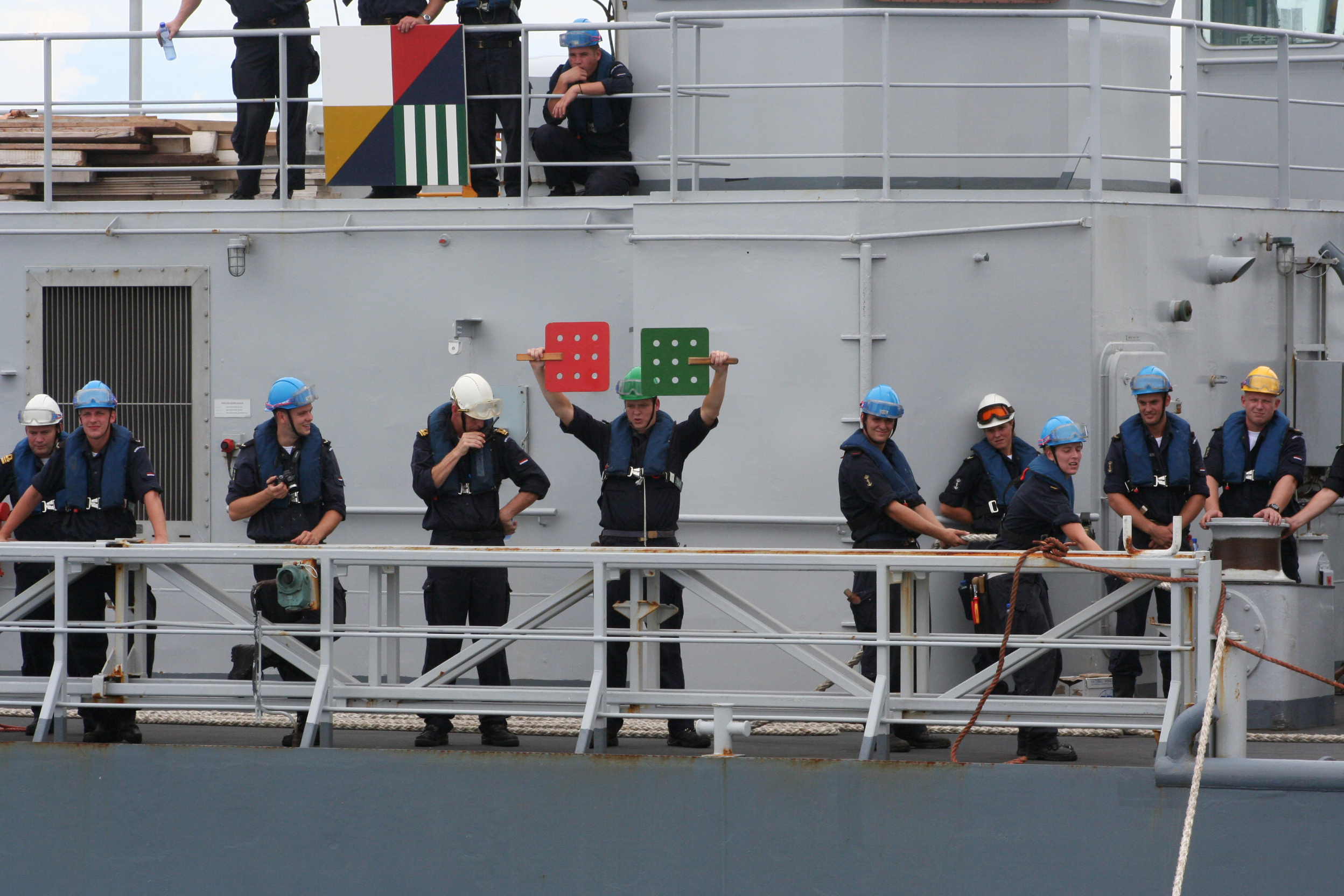 CARIBBEAN SEA (Sept. 17, 2009) A Dutch navy signalman sends a message to the USCGC Mohawk (WMEC 913) during a refueling at sea exercise in the Caribbean Sea as part of Fuerzas Aliadas PANAMAX 2009, a multinational exercise tailored to the defense of the Panama Canal. (U.S. Navy photo by Mass Communication Specialist 2nd Class Erica R. Gardner/Released)